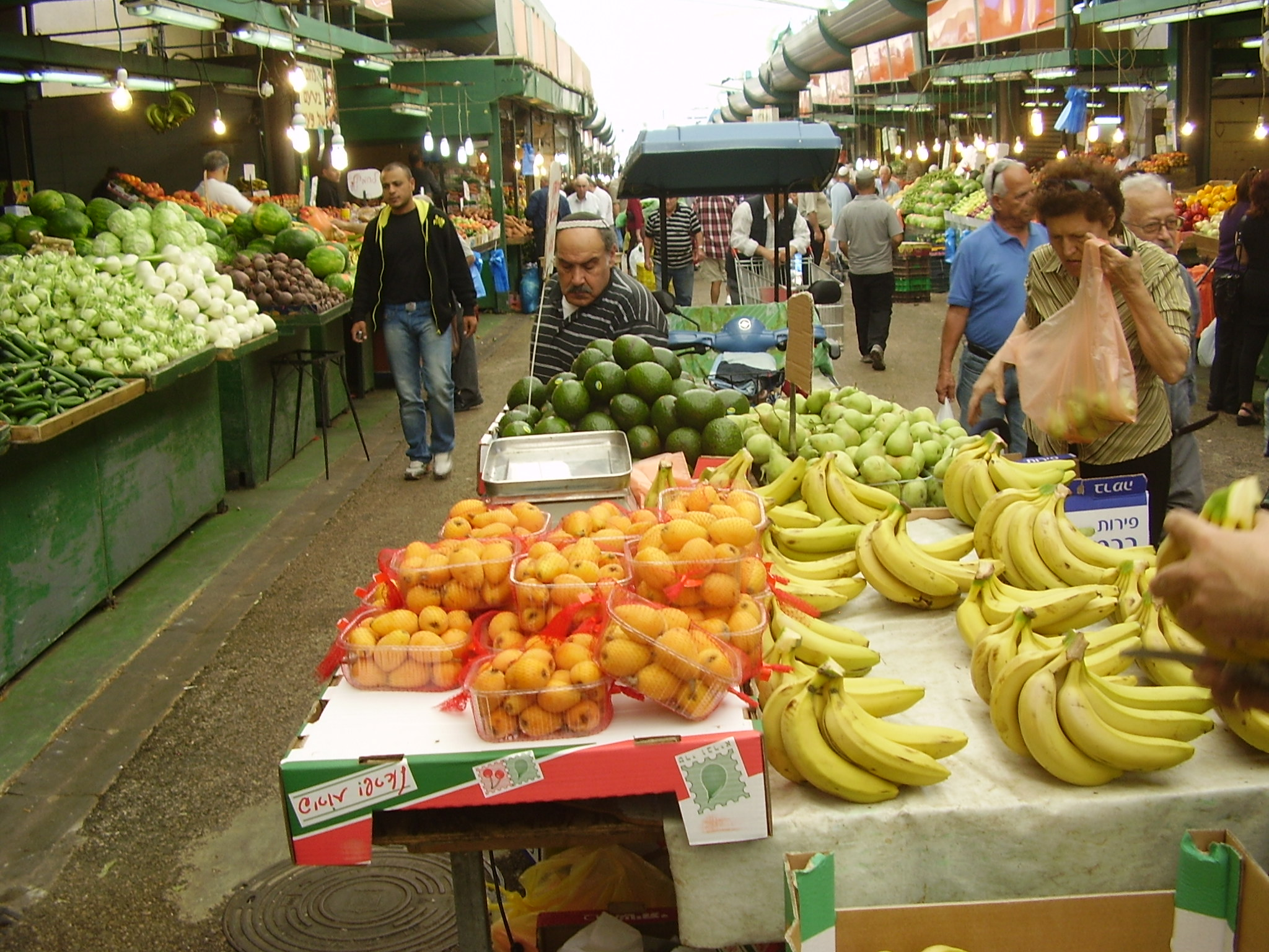 hatikva market in tel aviv